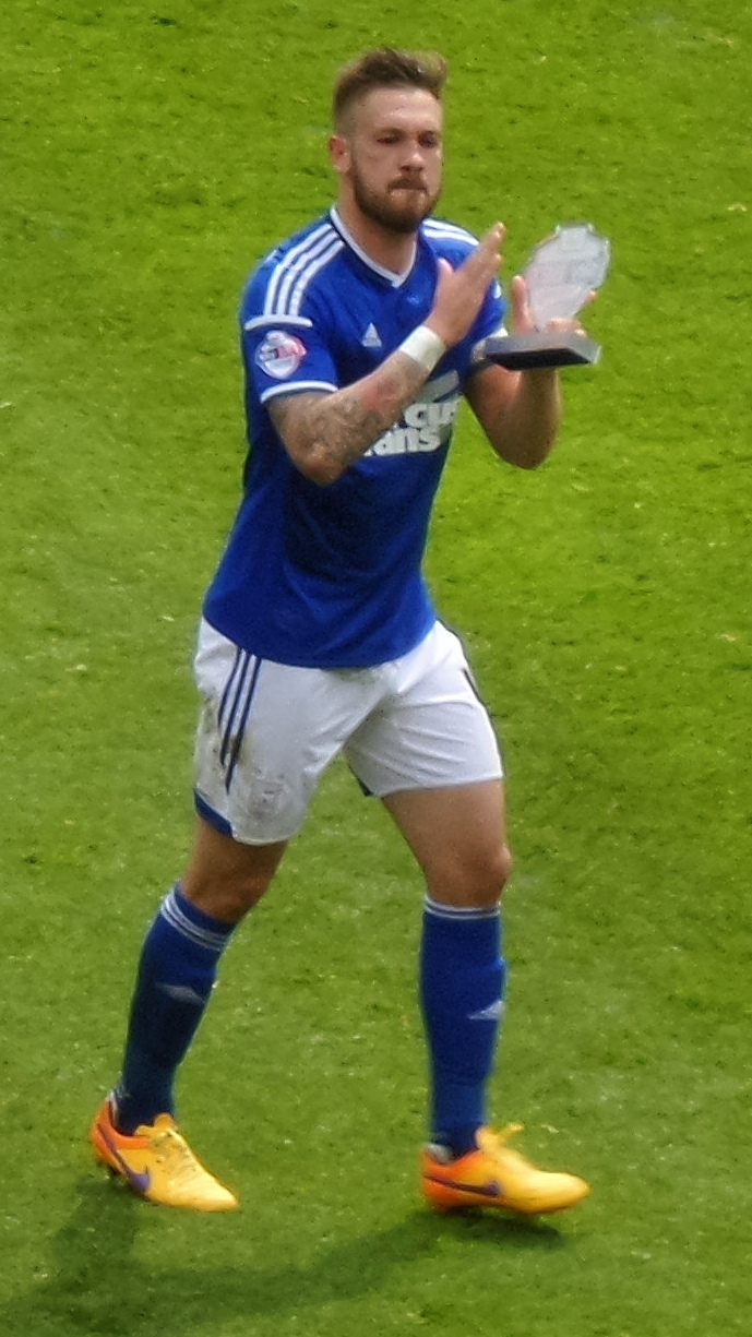 Ipswich Town's Luke Chambers with his man of the match award against Norwich City on 9 May 2015